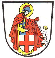 Wappen Engers